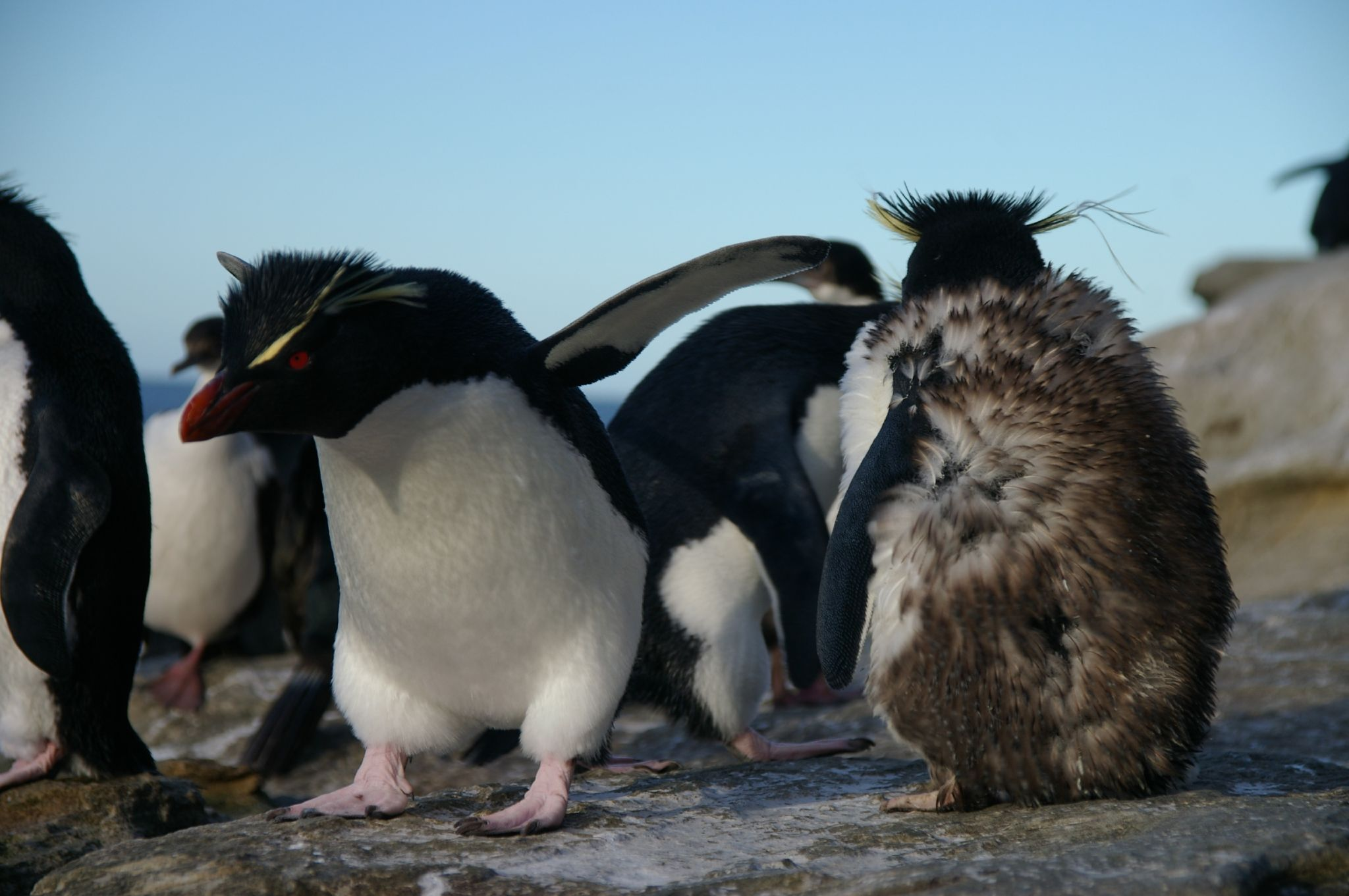 (Southern) Rockhopper Penguins (Eudyptes chrysocome), Saunders Island, Falkland Islands